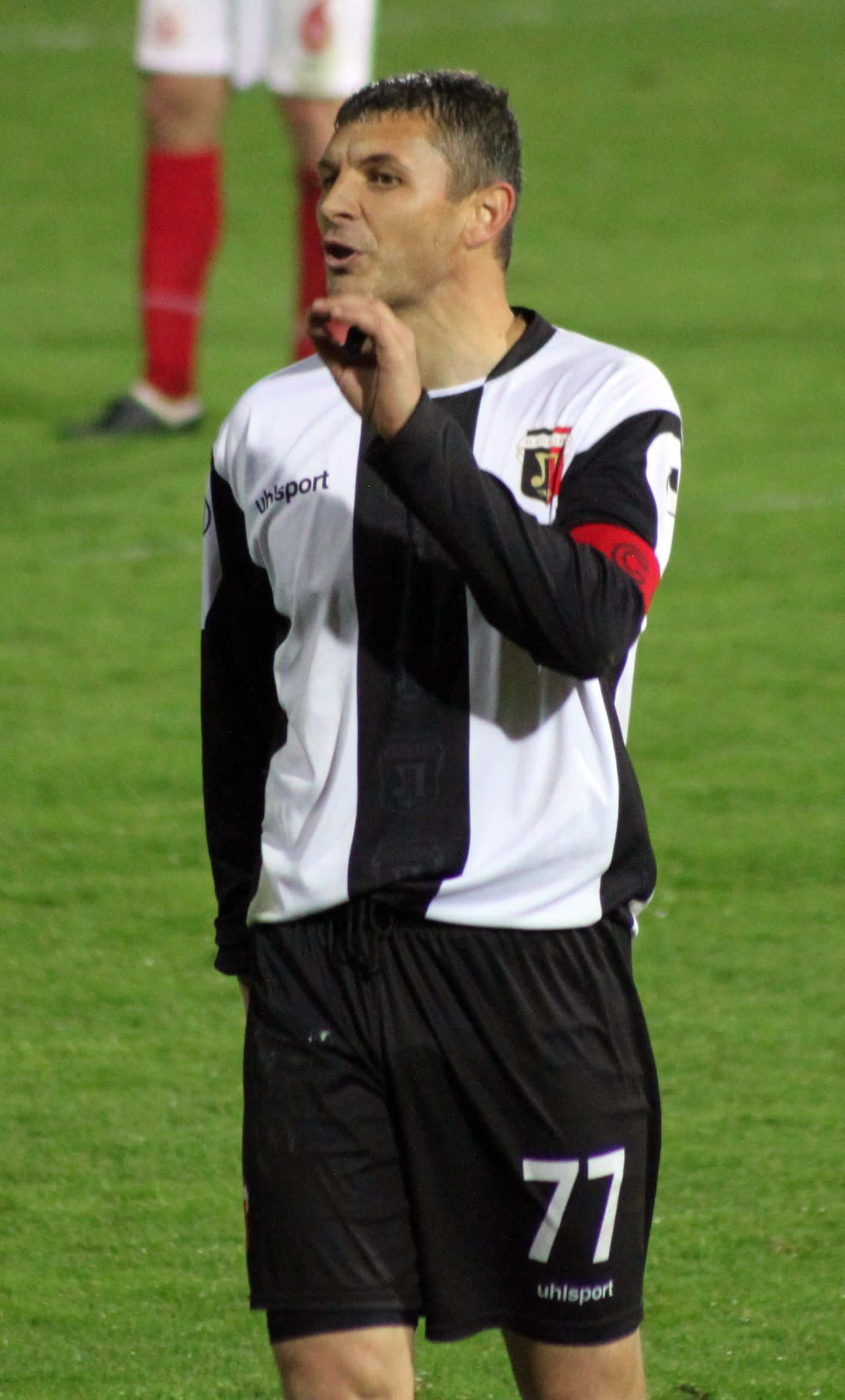 Zdravko Lazarov (Bulgarian: Здравко Лазаров) (born 20 February 1976 in Gabrovo, Bulgaria) is a Bulgarian football player, currently playing for Lokomotiv Plovdiv, captain of the team.